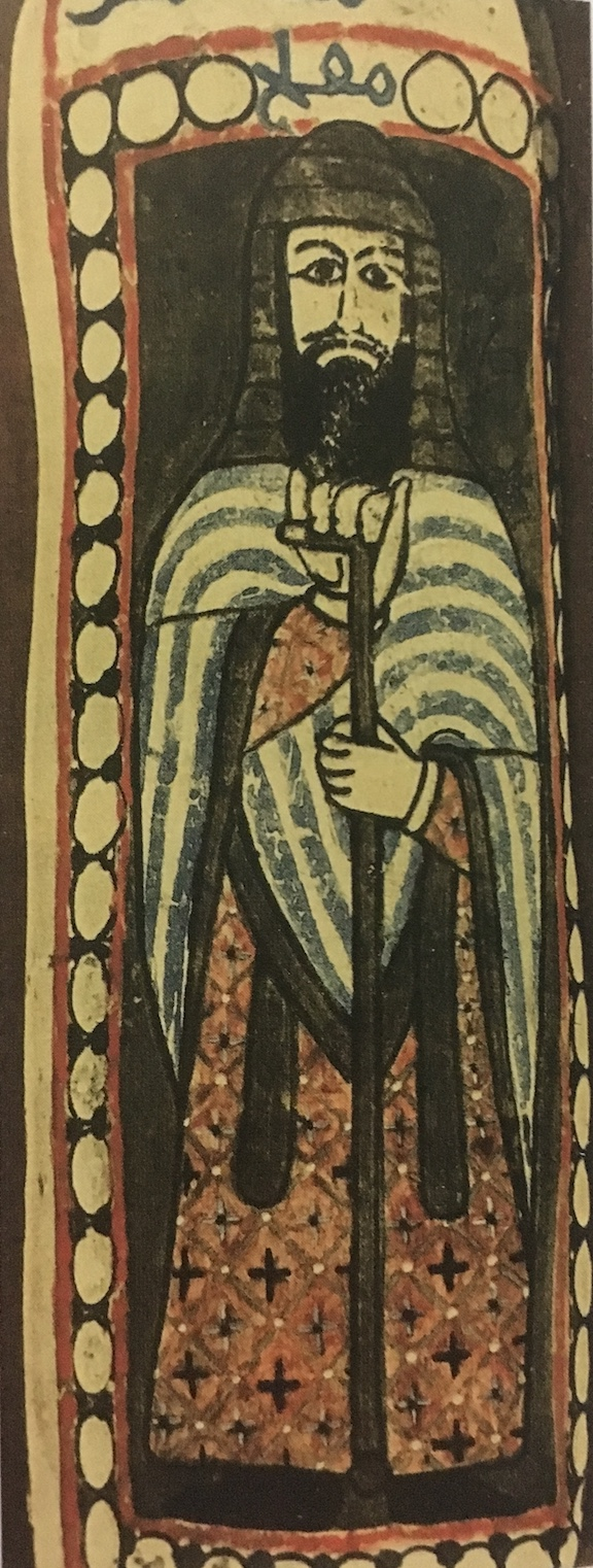 “Mural from 837/839 from the palace of al-Mukhtar in Samarra, Iraq, portraying a cleric of the Church of the East. Until 1921 the paintings, which were removed between 1911 and 1913, remained packed in crates, in which they were practically all destroyed.” – The Church of the East: An Illustrated History of Assyrian Christianity by Christoph Baumer, p. 166.